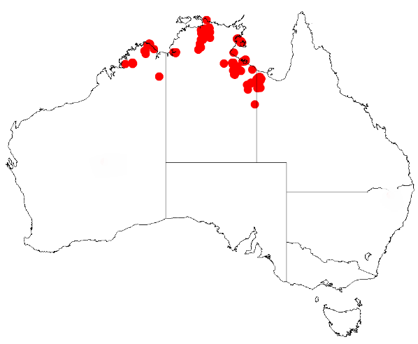 Acacia latifolia Occurrence data from Australasia Virtual Herbarium downloaded from on 8 December 2018